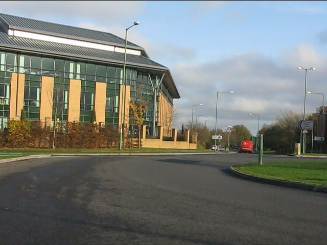 Office block, Monkspath Business Park